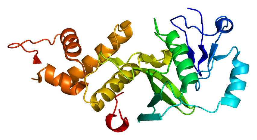 Structure of the HTATIP protein. Based on PyMOL rendering of PDB 2ou2.